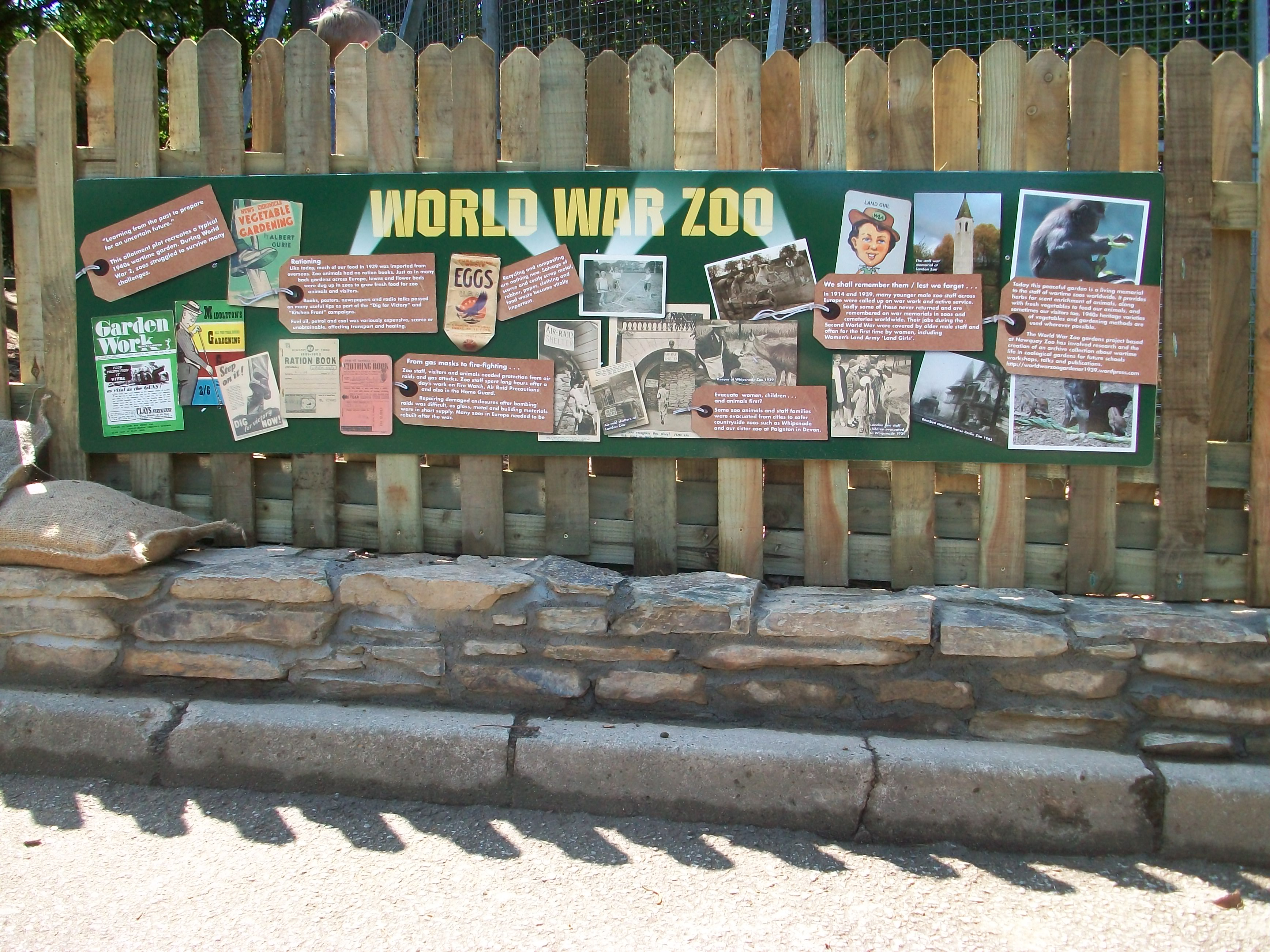 This is the graphics sign alongside our wartime dig for victory zoo keeper's allotment explaining the World War Zoo gardens project at Newquay Zoo, using images from our World War Zoo gardens archive on wartime zoos (design by Michelle Turton, Studio 71)